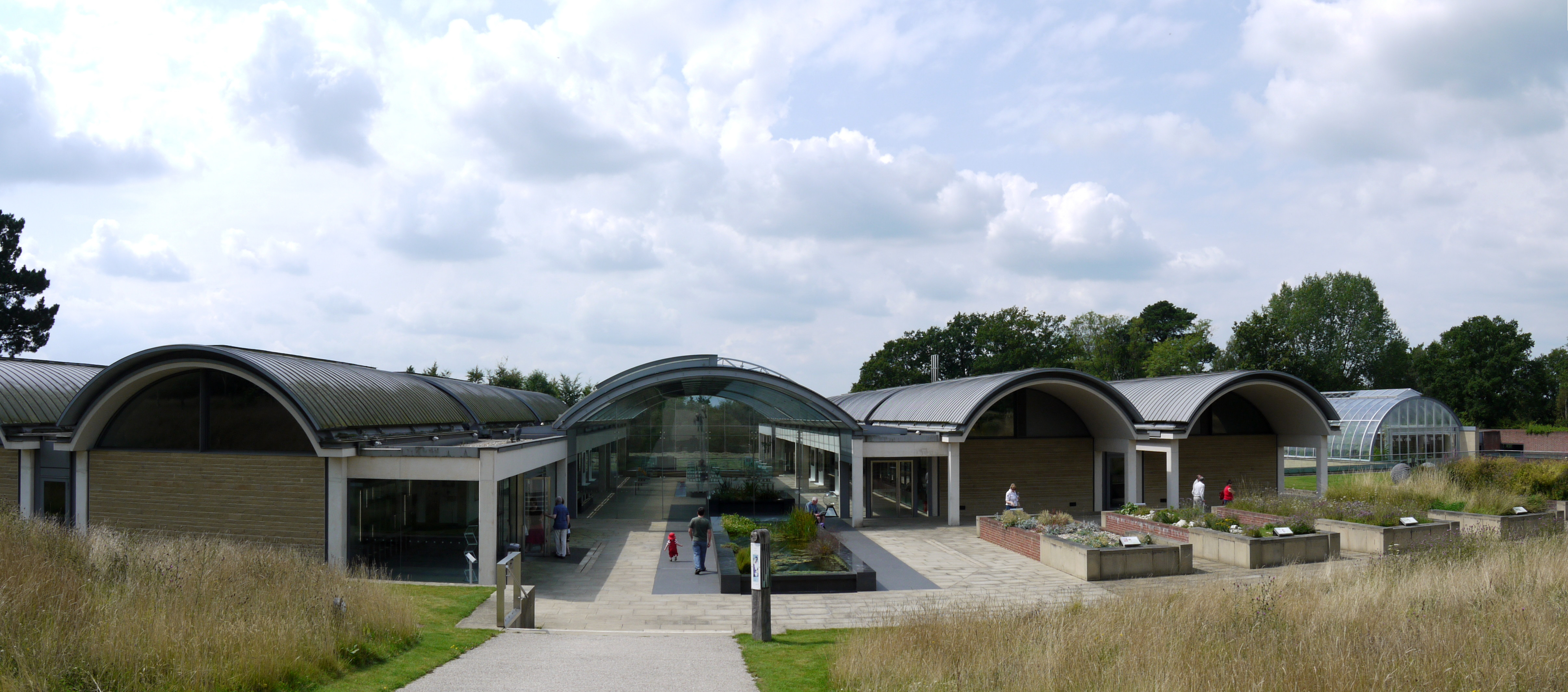 Millennium Seed Bank building in Wakehurst Place Garden, West Sussex, England.